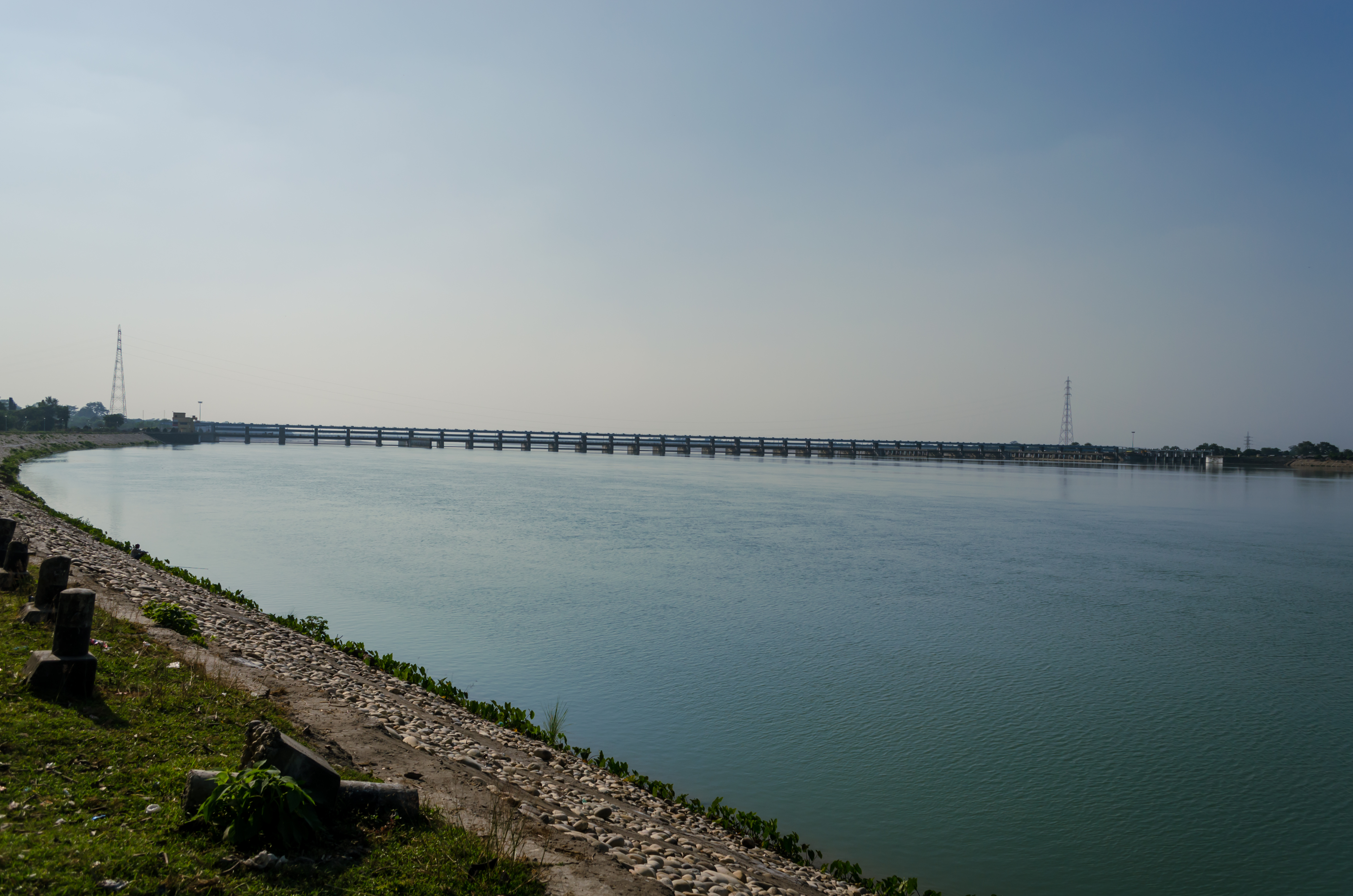 Also known as Saptagandaki in Nepal and Gandak in India. The photo is taken from Valmikinagar, India, where it serves as a natural frontier for India and Nepal. Few kilometers downstream, the river enters into India and finally merges with the Ganges near Patna, the state capital of Indian state of Bihar